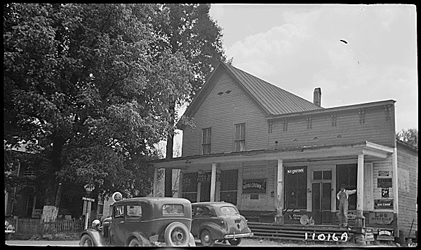 Store and post office in Rhea Springs, a community once located along the Piney River in Rhea County, Tennessee, USA. The community was inundated by Watts Bar Lake in the early 1940s. Caption: "Rhea Springs Post Office and Chattin's Store, 1940."